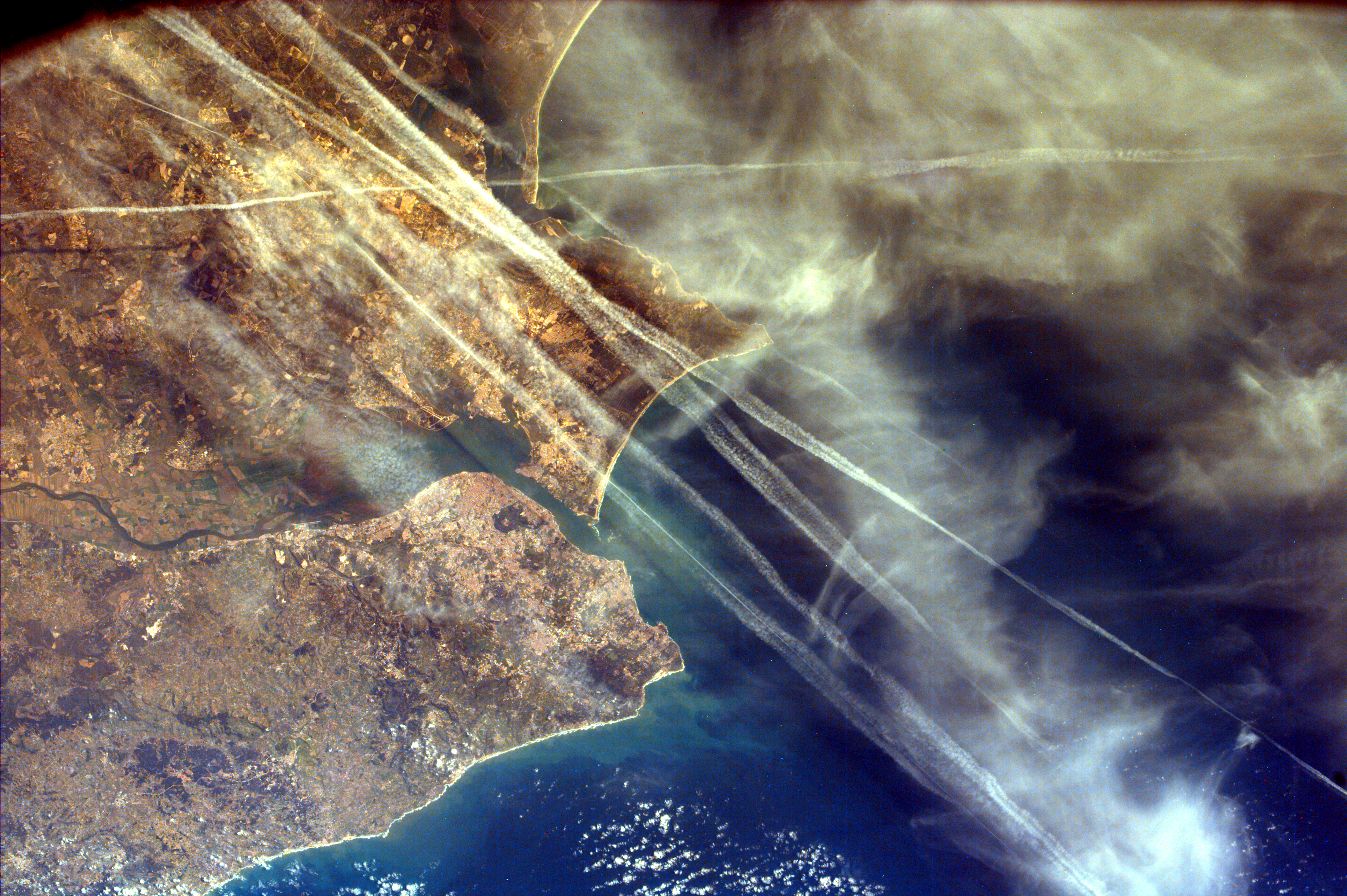 Lisbon, the capital of Portugal, is also its largest city containing one-fifth of the country's population. The superb natural harbor at Lisbon is a commercially important European port handling much of the import-export traffic for Portugal and Spain. The Tagus River, which meets the Atlantic Ocean at Lisbon, originates in central Spain. It provides limited access to the interior Iberian Peninsula because it descends from the great Meseta plateau of central Spain through narrow gorges. Vapor trails, like those crossing this image, are formed by the combustion of airplane fuel when a plane passes through a part of the atmosphere with relatively high humidity. The contrails themselves are actually plumes of ice crystals that can persist in the atmosphere for several hours. Most of these contrails are probably intercontinental flights coming and going from Madrid, Spain.